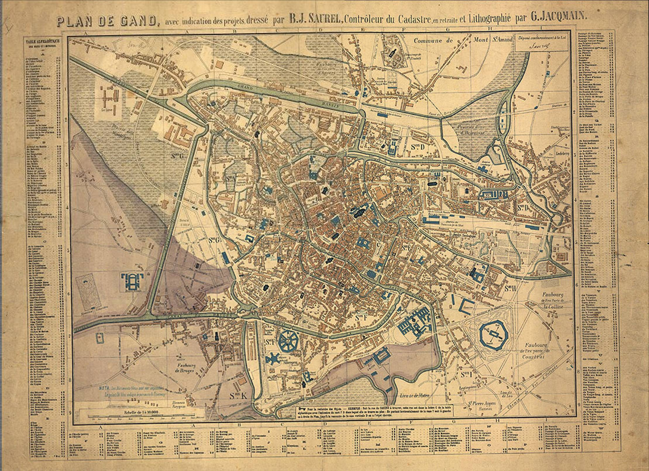 map of Ghent Belgium by Saurel in 1878